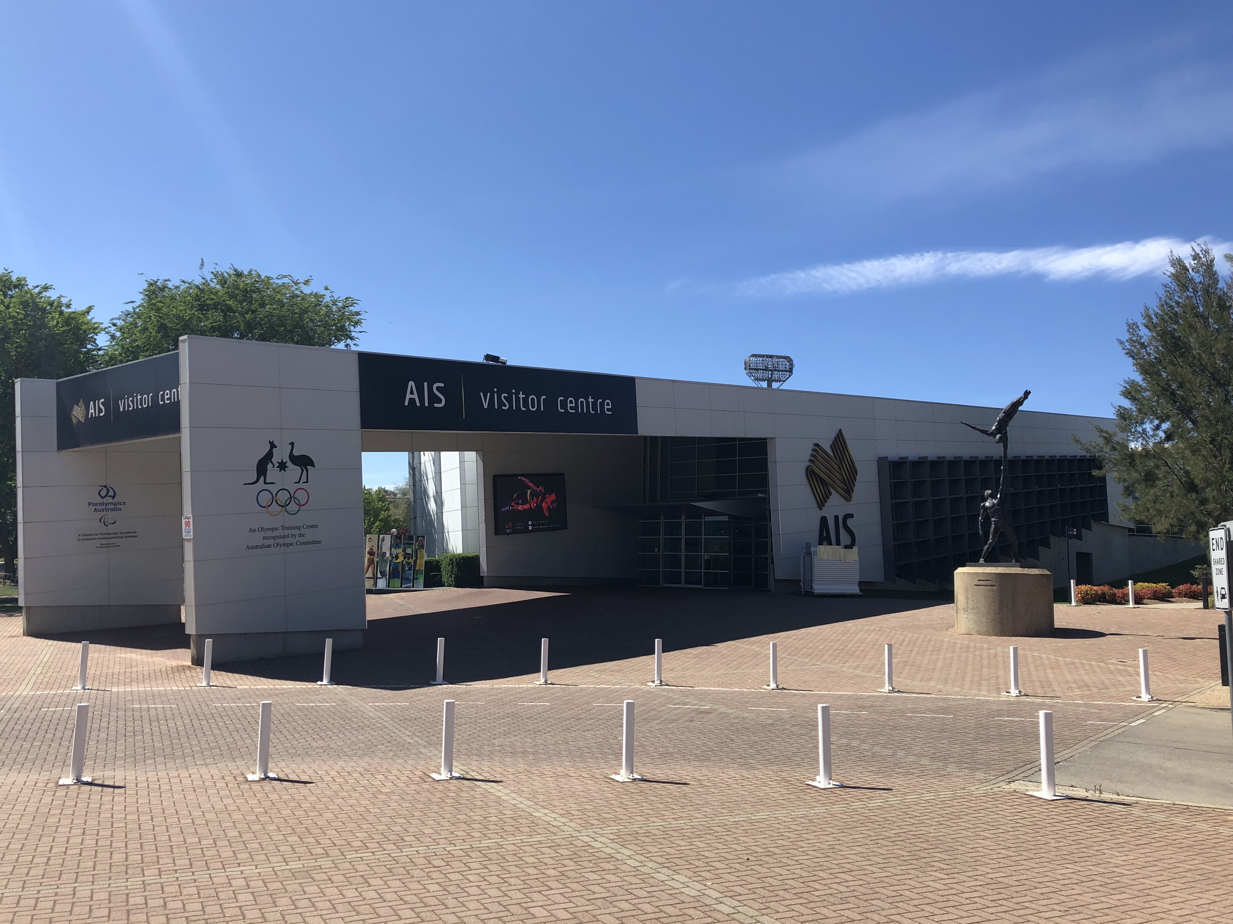 Australian Institute of Sport Visitor Centre